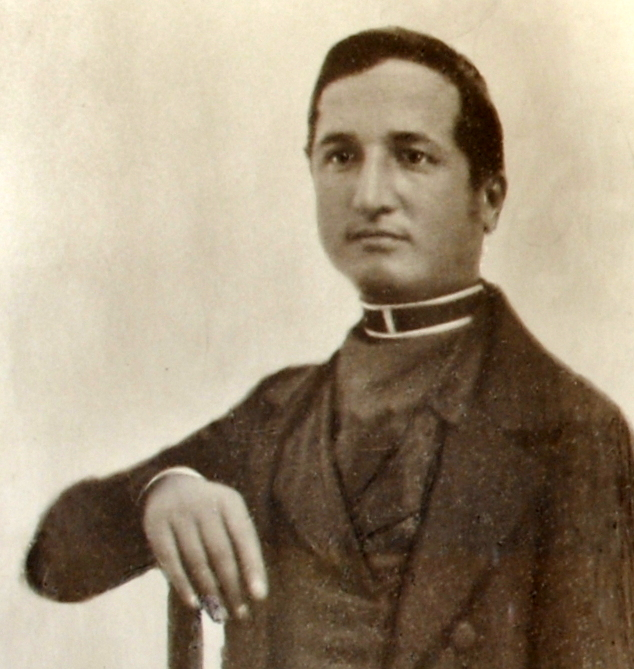 Ettore Craveri - Italian naturalist